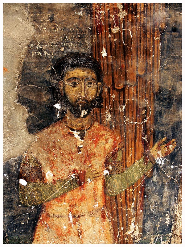 Portrait of tsar Michael Asen I of Bulgaria (1246 - 1256), from the church Agii Taxiarhes Mitropiliteos in Kastoria, Greece.